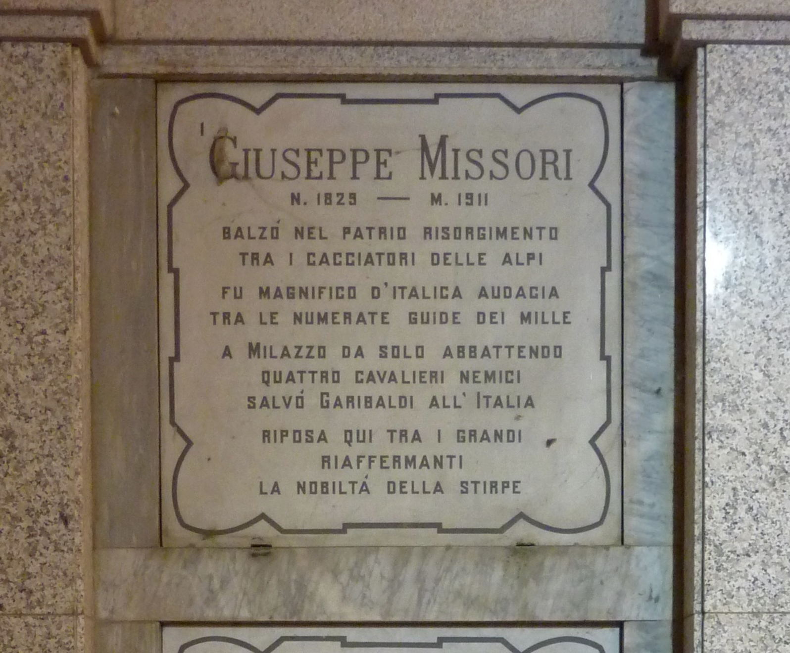 The grave of Italian patriot Giuseppe Missori at the Monumental Cemetery of Milan, Italy.